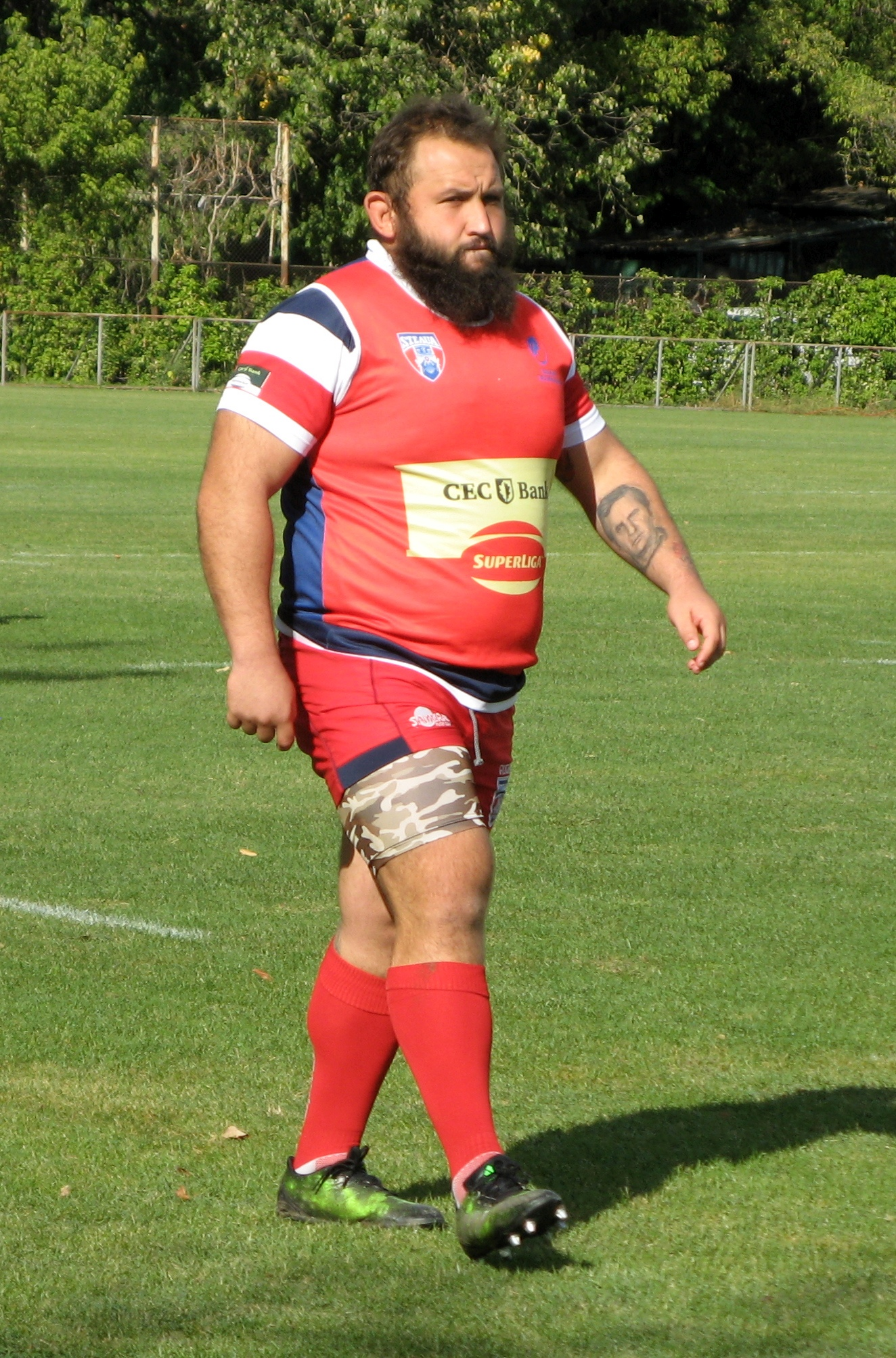 Romanian international rugby union player, Vlad Bădălicescu, player of CSA Steaua București rugby club seen training before a match against CSM Baia Mare in Round 5 of Romanian Rugby SuperLiga in September 2017